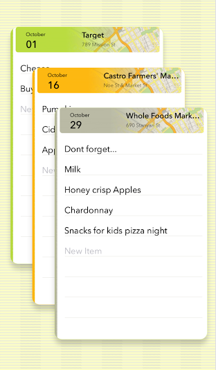 A screenshot from the SteerList iPhone app